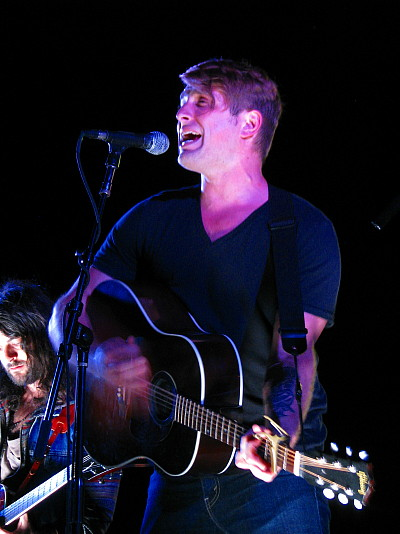 Steven McMorran of Satellite playing at WBJB Summer Concert Series on the Beach at Belmar, NJ on 08152013. Photo by LHCollins.